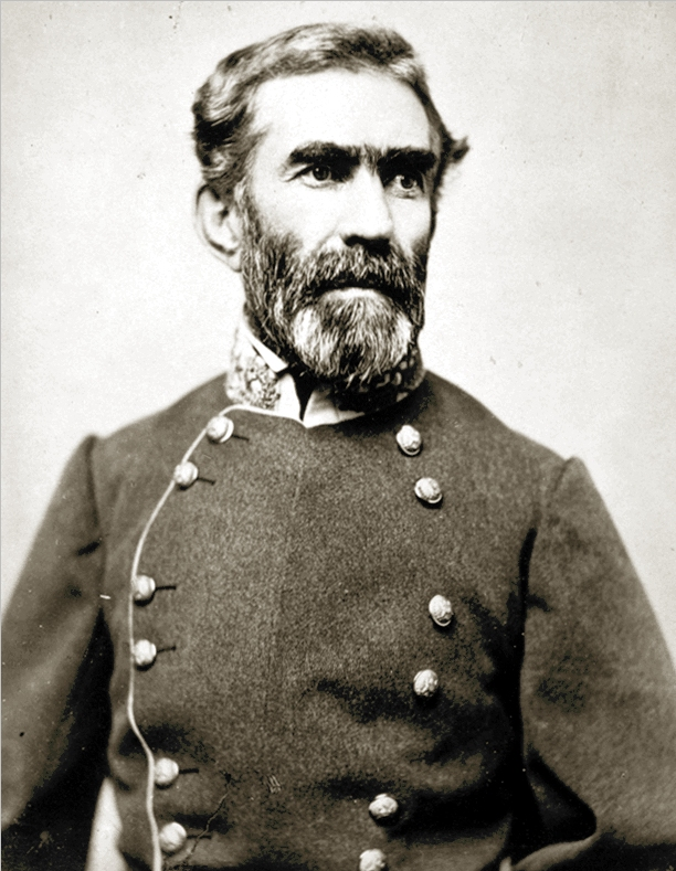 Braxton Bragg, half-length portrait, facing right